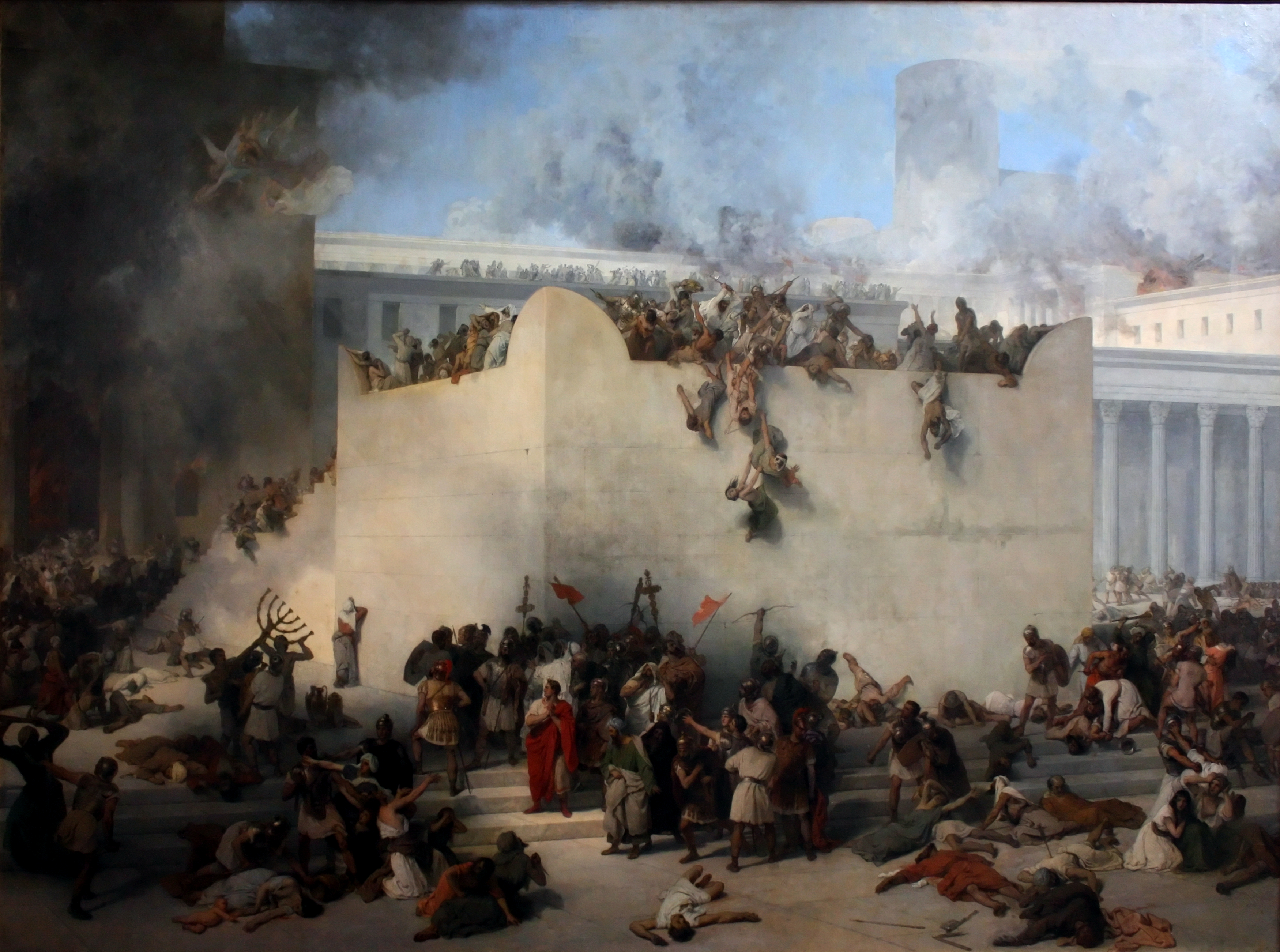 Francesco Hayez (1791–1882) Alternative names Ajez; Hayez; Hayes; francesco hayer; francesco hayez; Francisco HayezDescriptionItalian painter and photographerDate of birth/death 10 February 1791 / 1791 21 December 1882Location of birth/death Venice MilanWork location Milan, Venice, RomeAuthority control : Q223725 VIAF: 283001 ISNI: 0000 0000 8079 7902 ULAN: 500019066 LCCN: n83140462 WGA: HAYEZ, Francesco WorldCat creator QS:P170,Q223725 Destruction of the jewish temple in Jerusalem. Origin: acquired in 1868 by a donation of his author. (cat. 756) Gallerie dell'Accademia Native nameGallerie dell'AccademiaLocationCampo della Carità, Dorsoduro 1050, Venice, ItalyCoordinates45° 25′ 52.07″ N, 12° 19′ 41.39″ E Established1750 Web pagegallerieaccademia.itAuthority control : Q338330 VIAF: 145358176 ISNI: 0000 0001 2336 9896 LCCN: n83215494 WorldCat institution QS:P195,Q338330